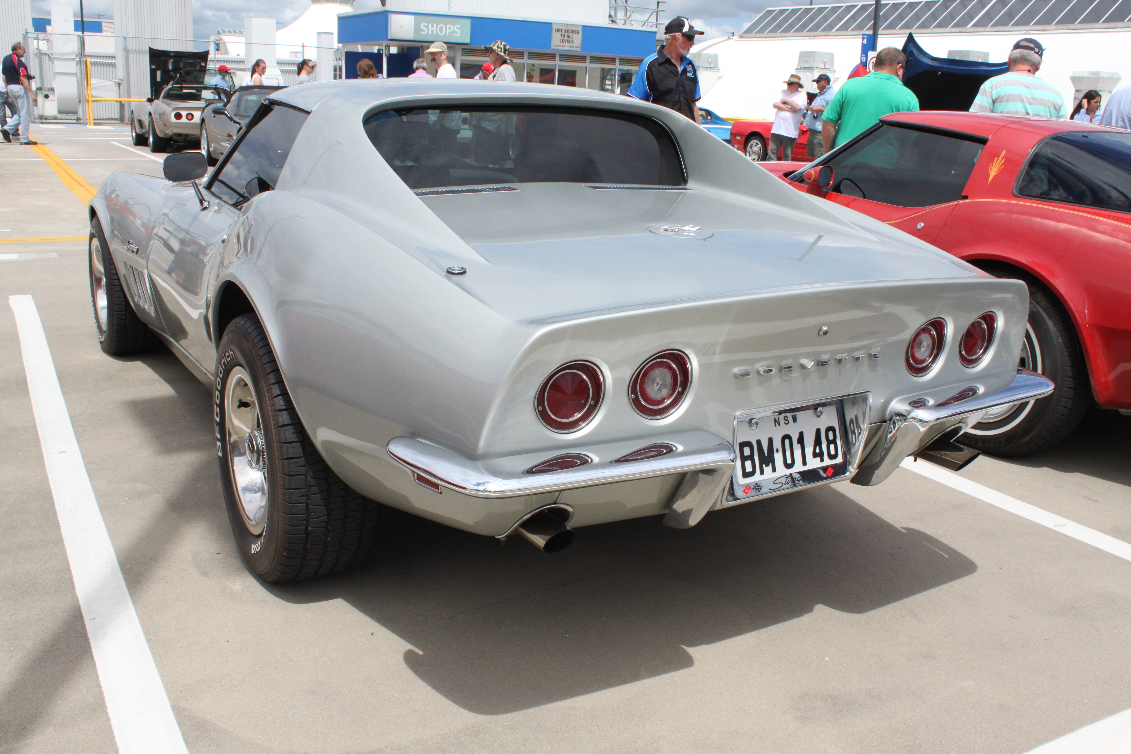 All American Car Show, Castle Hill, NSW January 2016